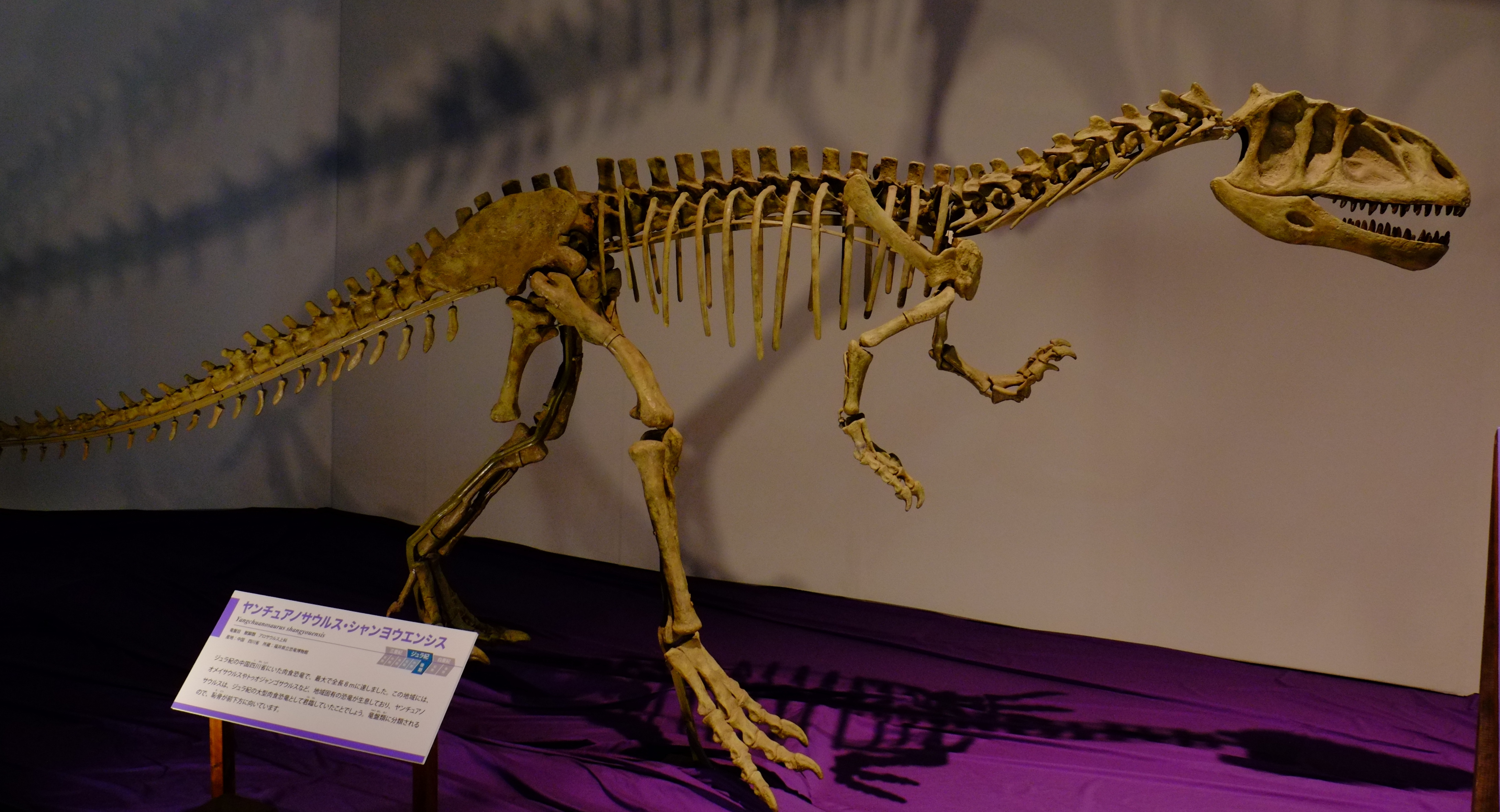 Skeleton of the metriacanthosaurid Yangchuanosaurus